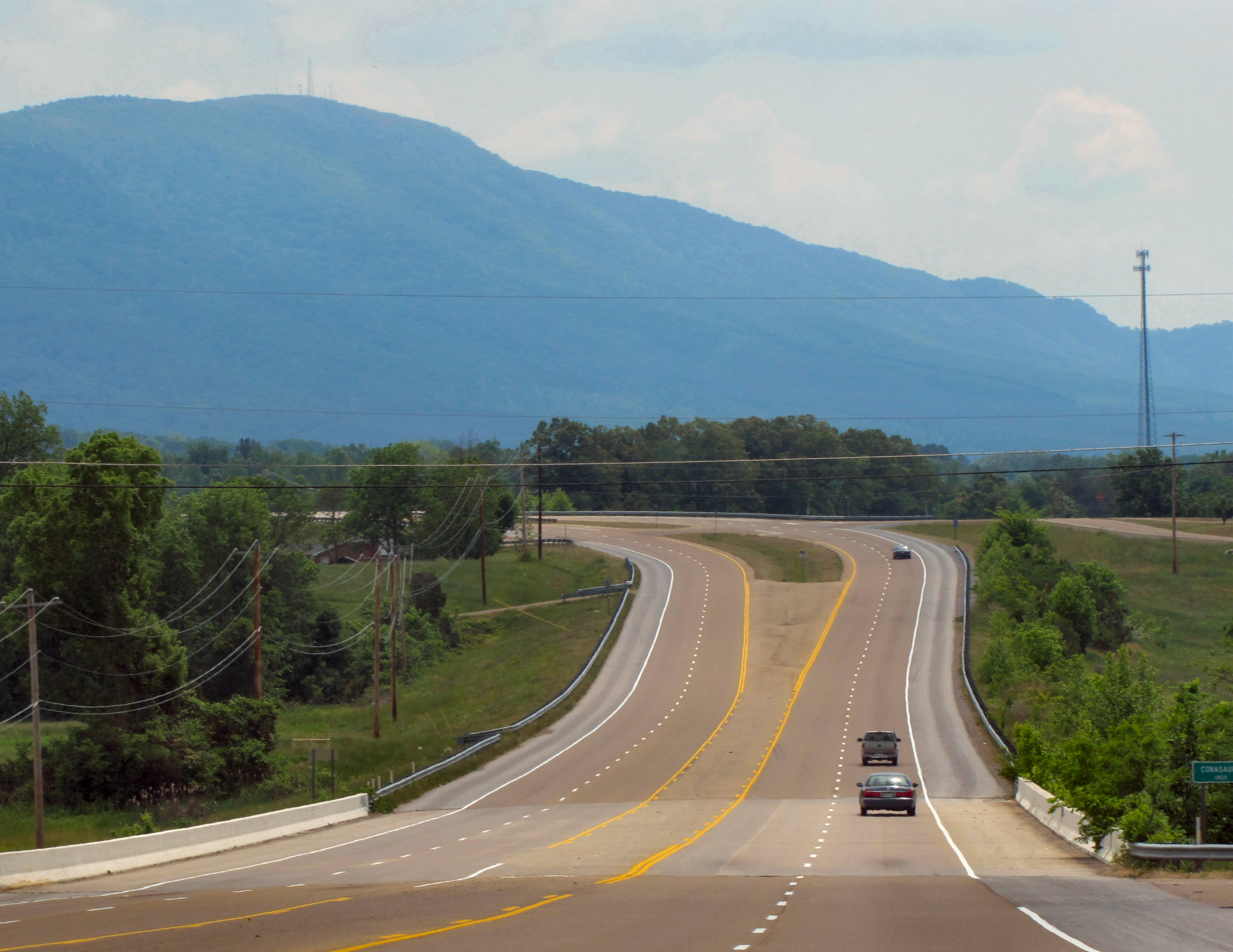 U.S. Route 411 crossing Conasauga Creek near Etowah, Tennessee, United States.